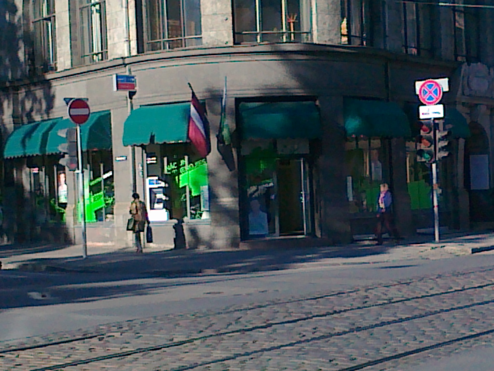 Bureau of Unity alliance for the 2010 parliamentary election.